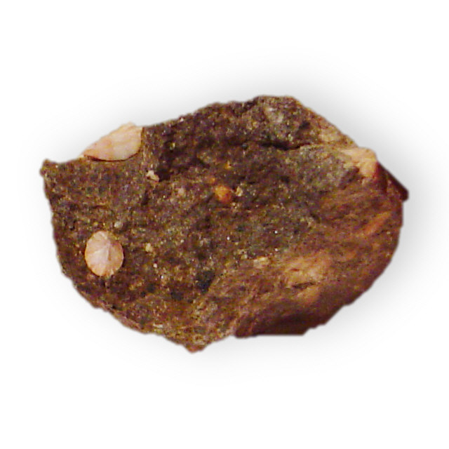 These mineral images are free to use how you wish.